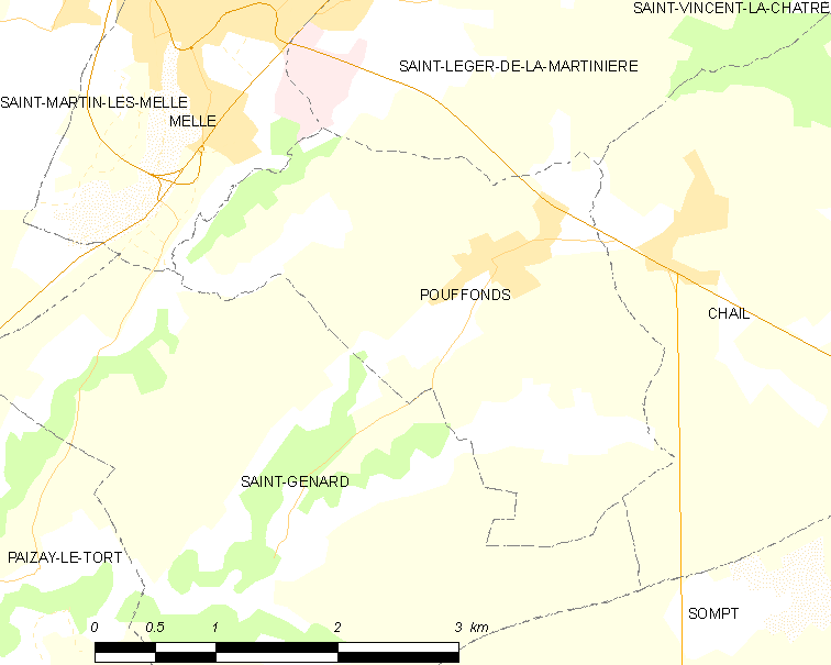 Map of French municipality Pouffonds